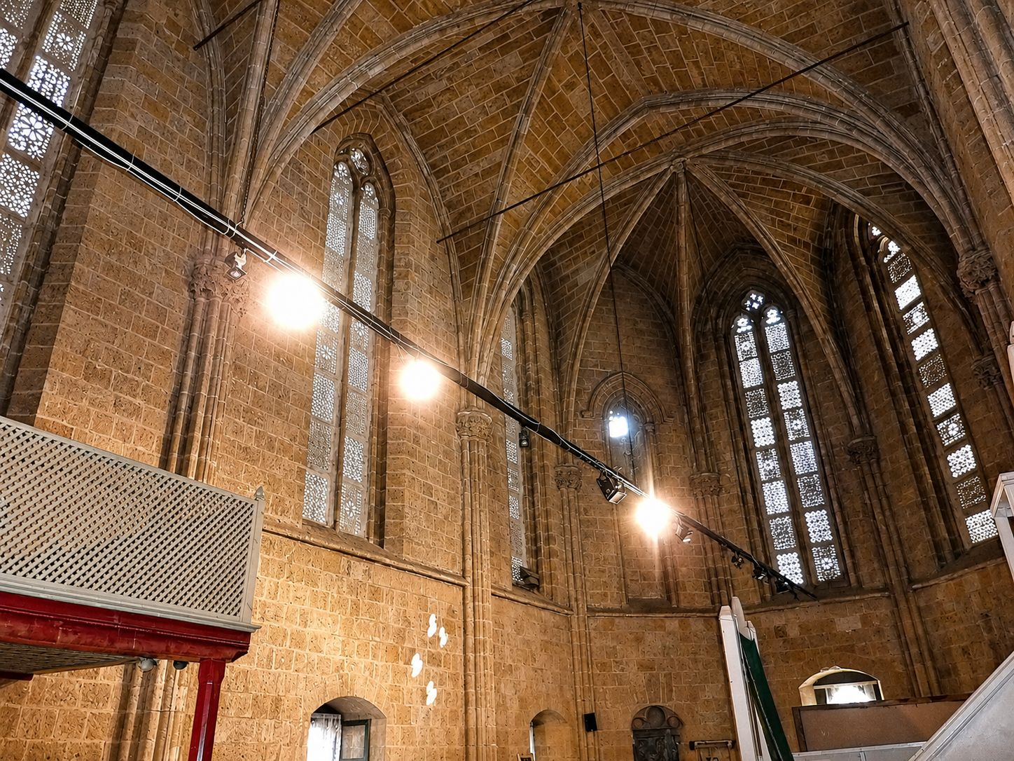 Haydarpasha Mosque (St. Catherine Church), Nicosia